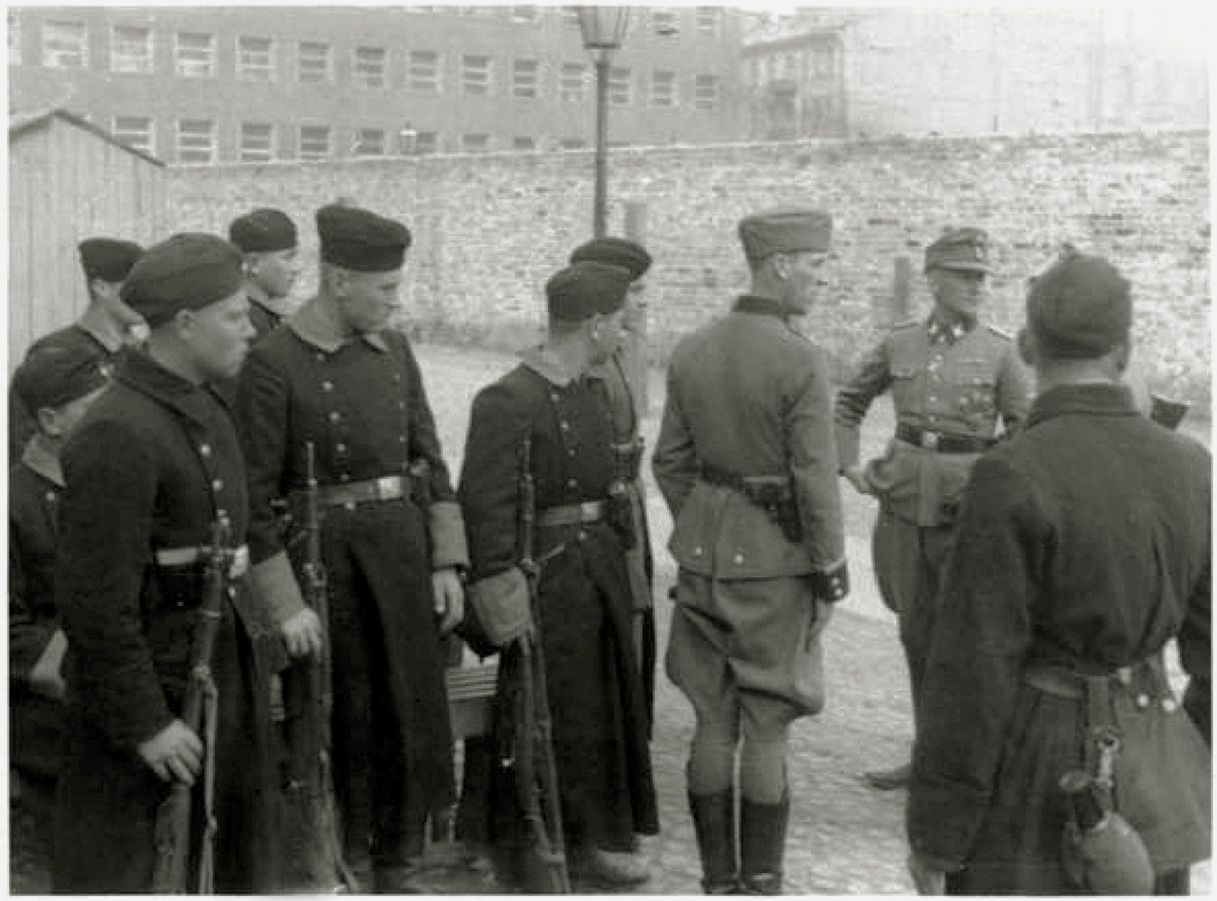 General Jürgen Stroop and foreign fighters (which Germans incorrectly called Askaris after German foreign troops in Africa) at the Umschlagplatz during Warsaw Ghetto Uprising.